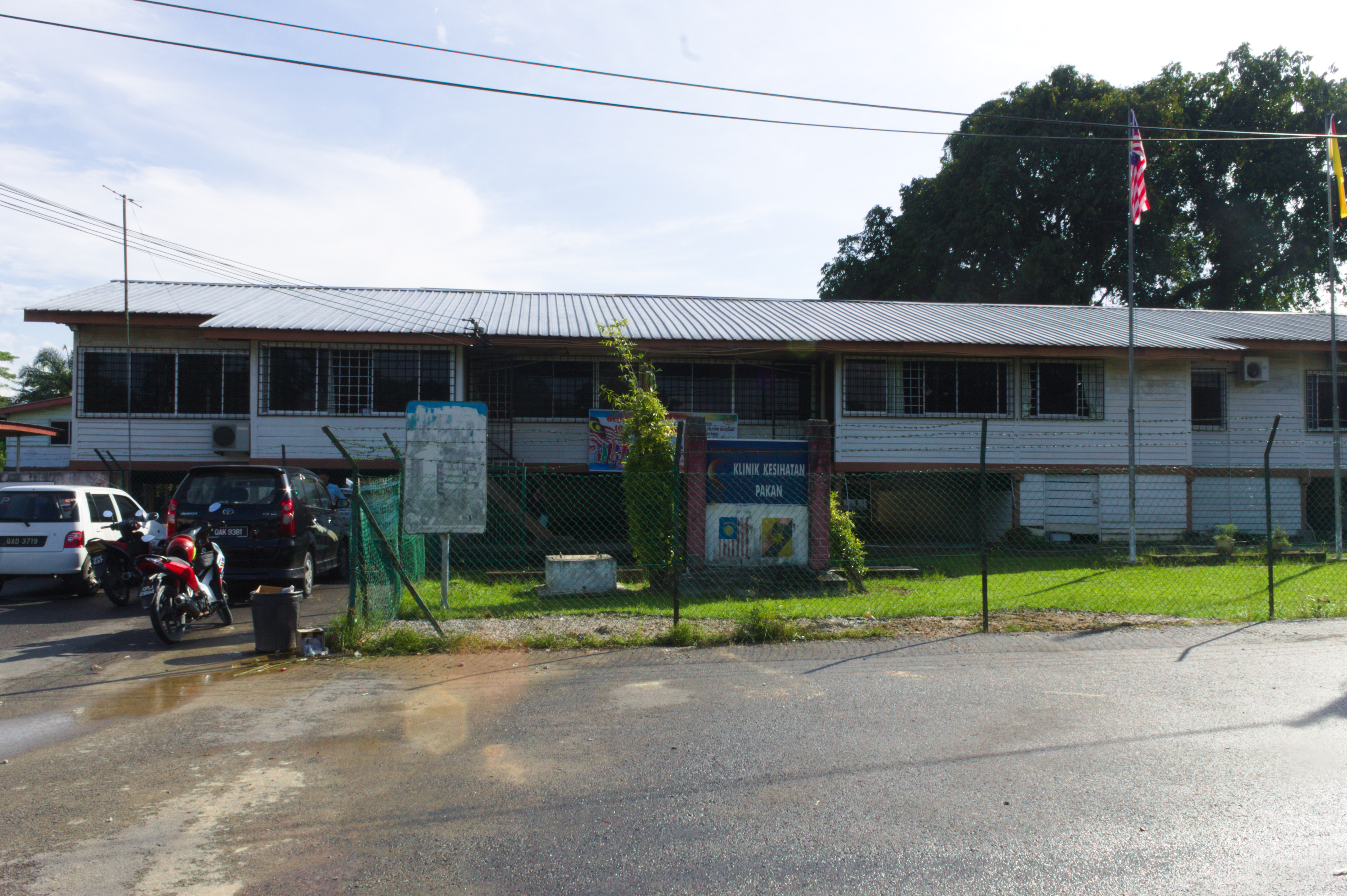 Pakan public health clinicBahasa Melayu: Klinik Kesihatan Pakan